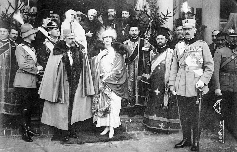 Crown prince Carol II, King Ferdinand I and Queen Mary of Romania